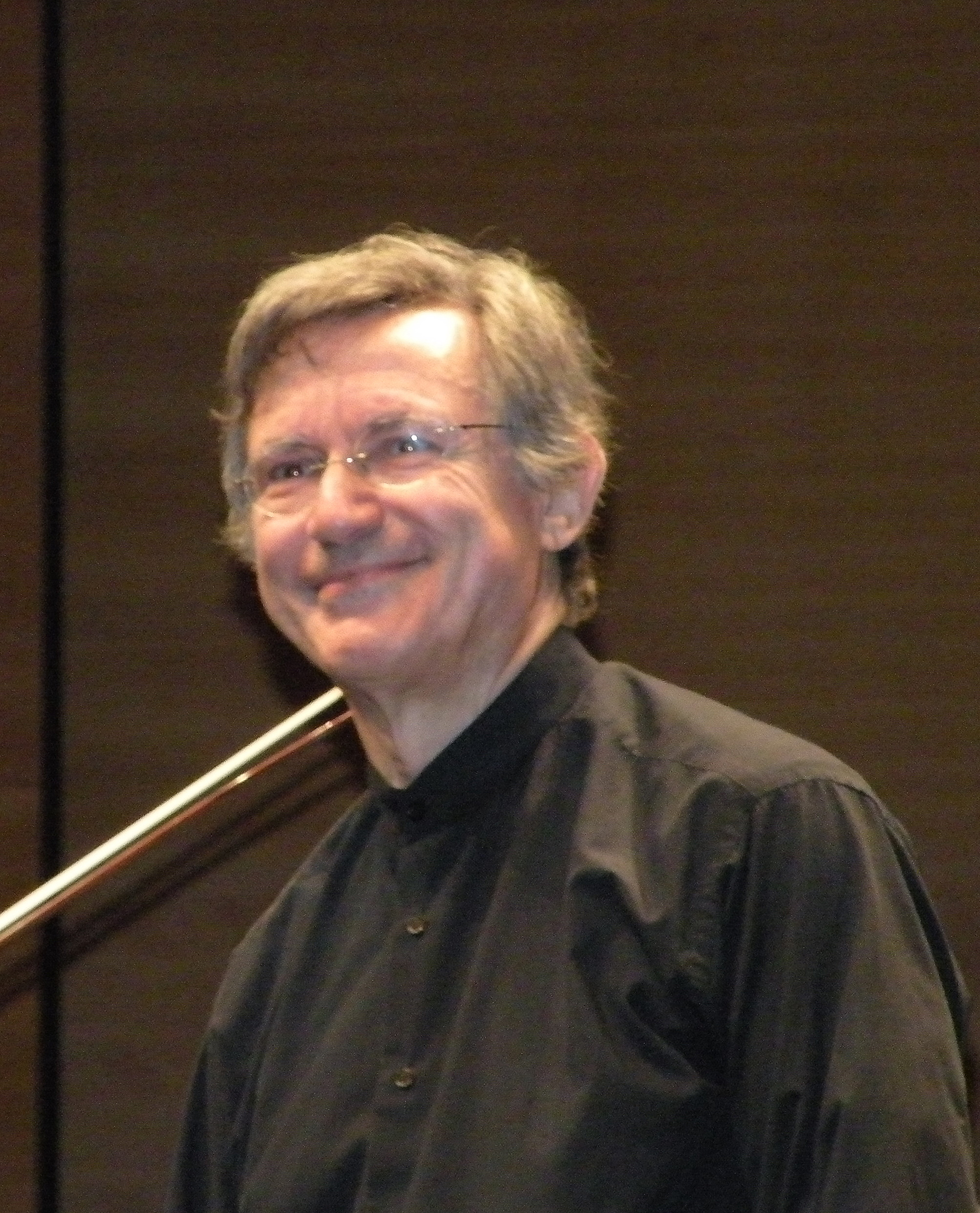 Jean-Jacques Kantorow, french conductor on 28 january 2009, during La Folle Journée in Nantes.